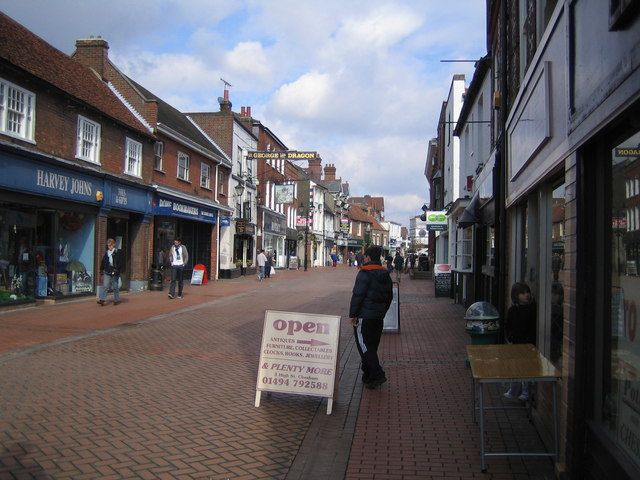 Chesham: High Street. The pedestrianized High Street viewed looking northwards with the George and Dragon Public House on the left.